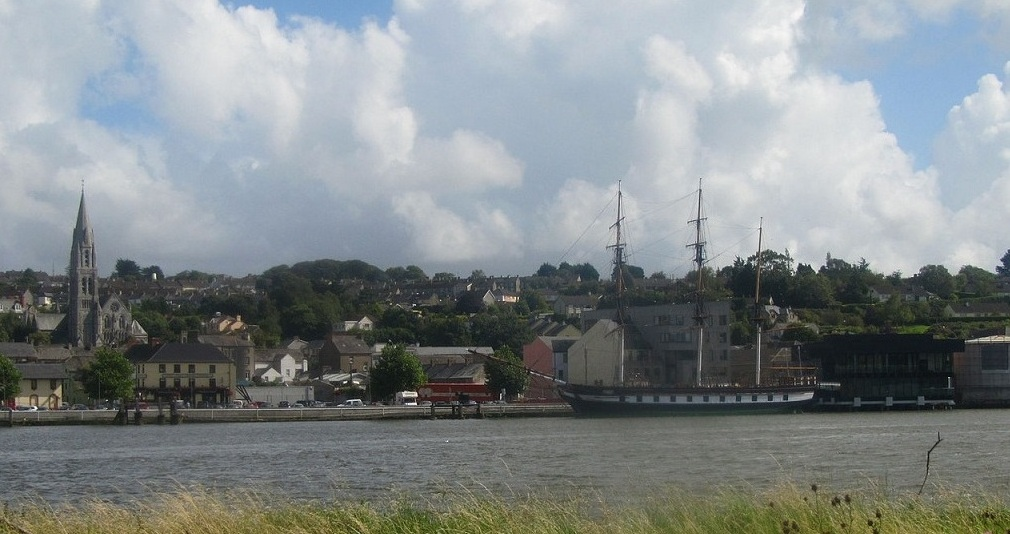 Newross2011